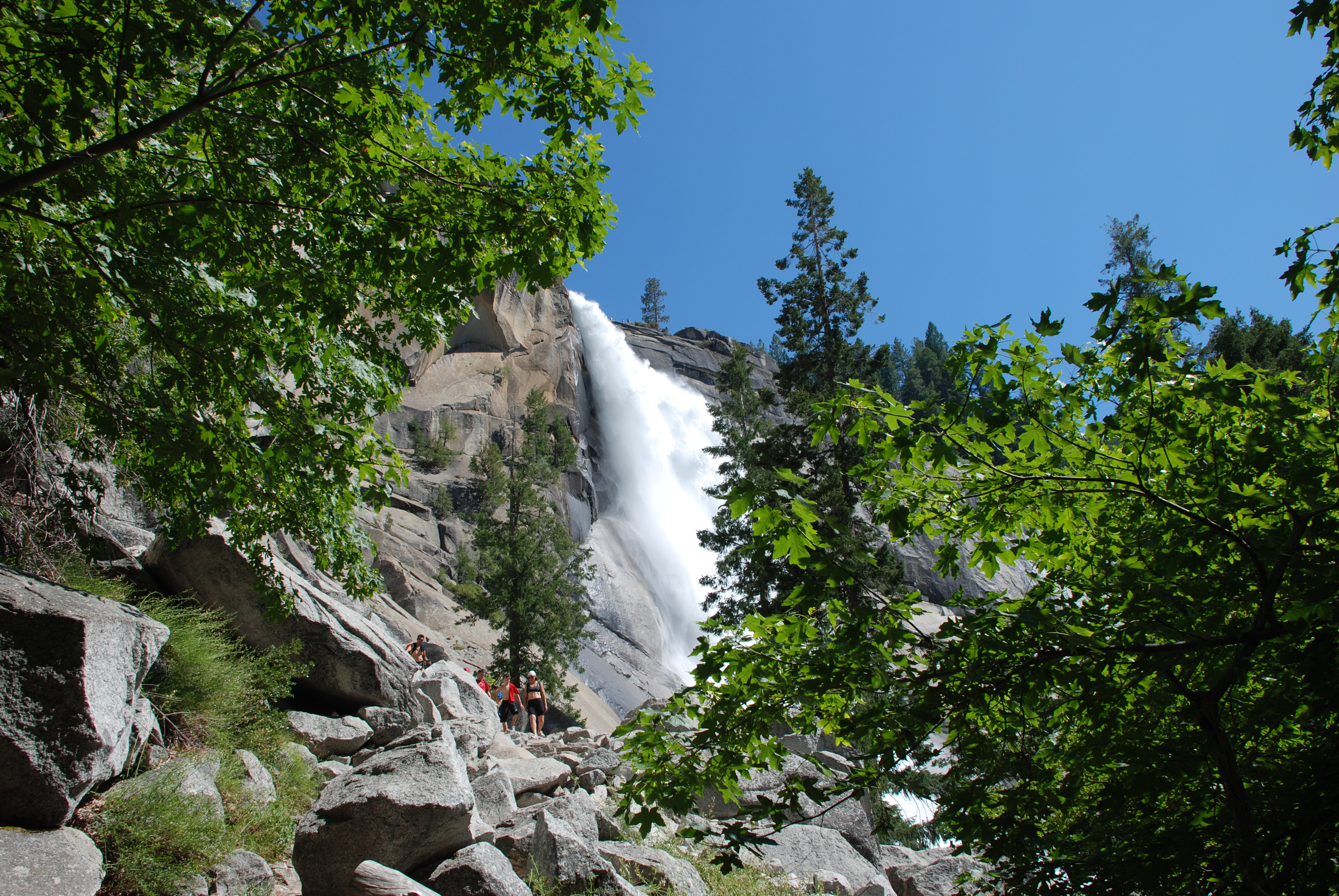 Upper part of the trail to Nevada Fall, Yosemite National Park, California, USA